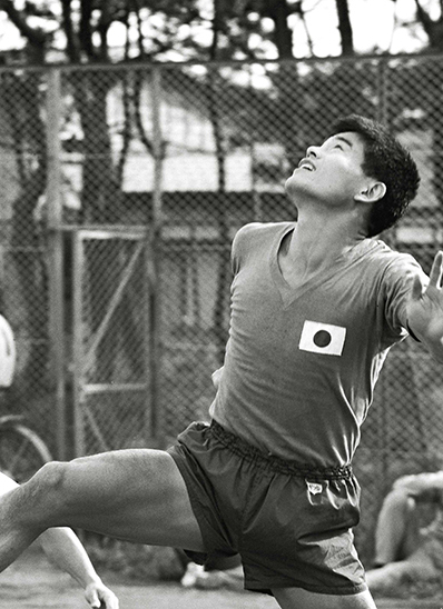 Saburō Kawabuchi at the 1964 Olympics